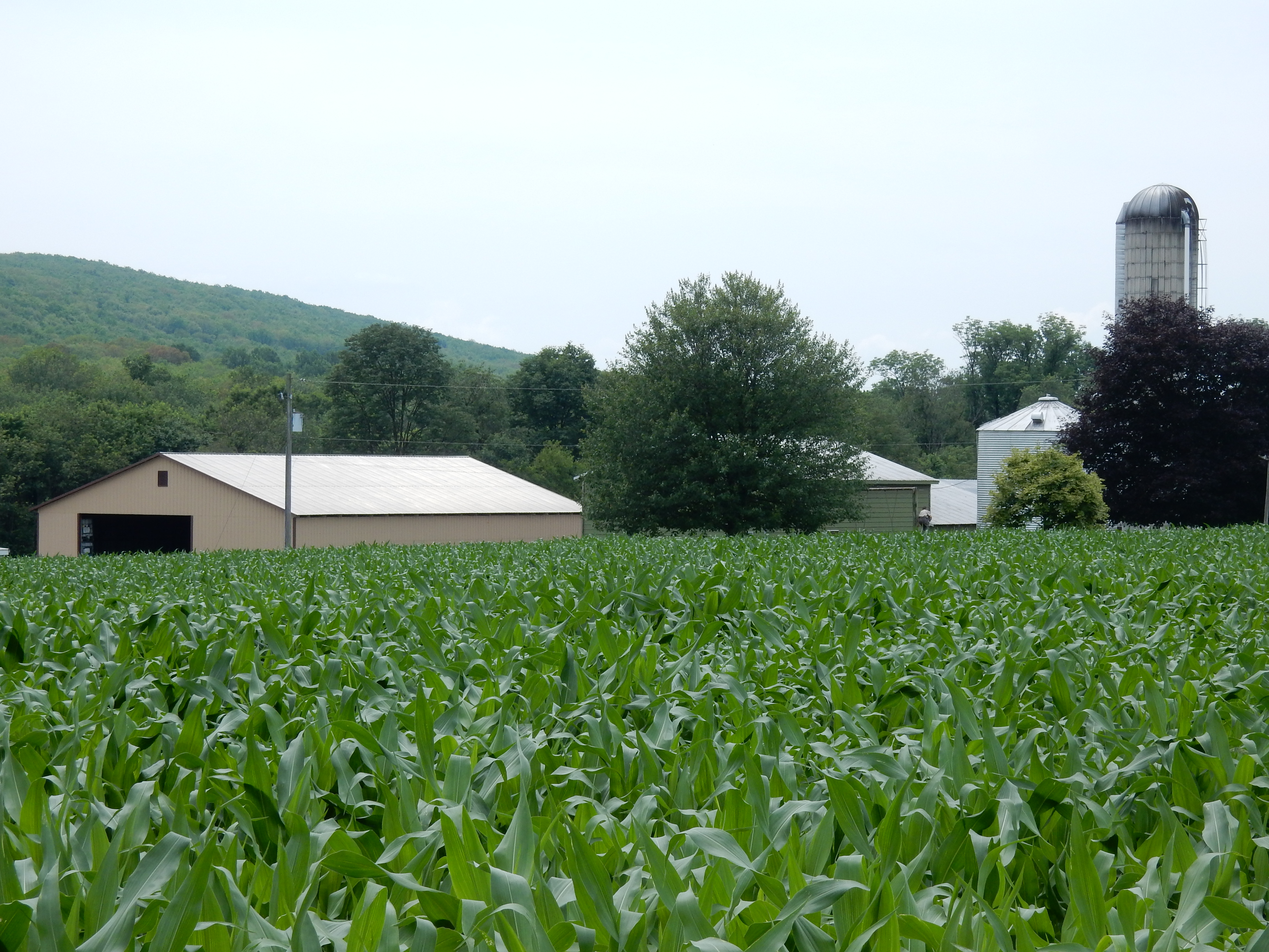 Farm on Spruce Ln. near Valley Rd., Walker Township, Schuylkill County, Pennsylvania. Looking west.